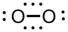 pauling's lewis structure for o2